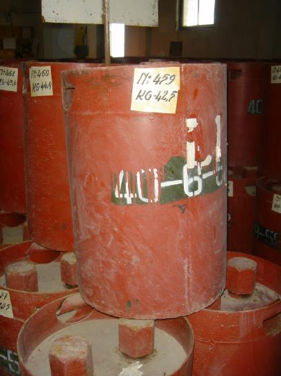 Soviet chemical weapons canister from an Albanian stockpile.